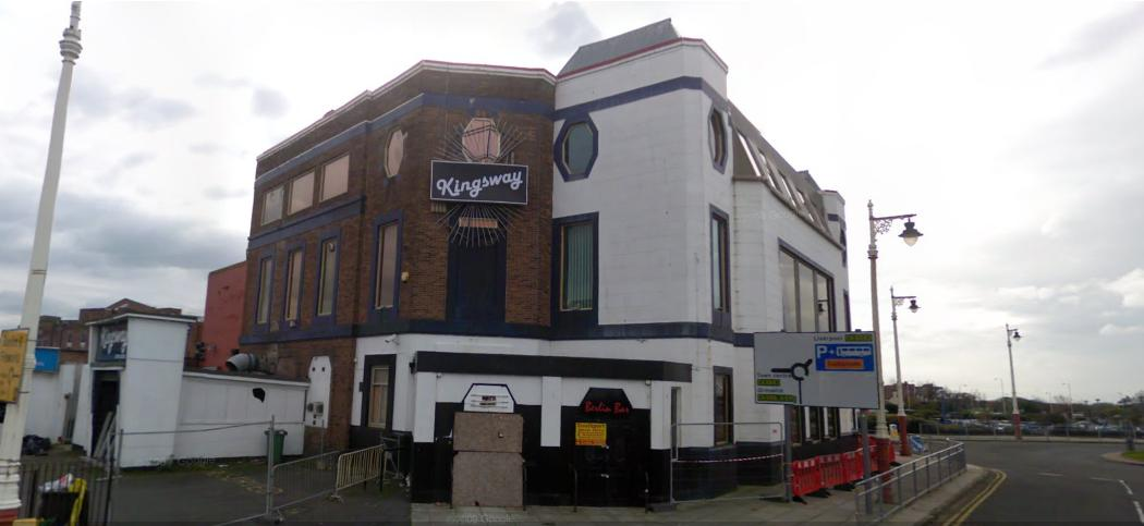 A Photo of the Kingsway Nightclub taken in 2006